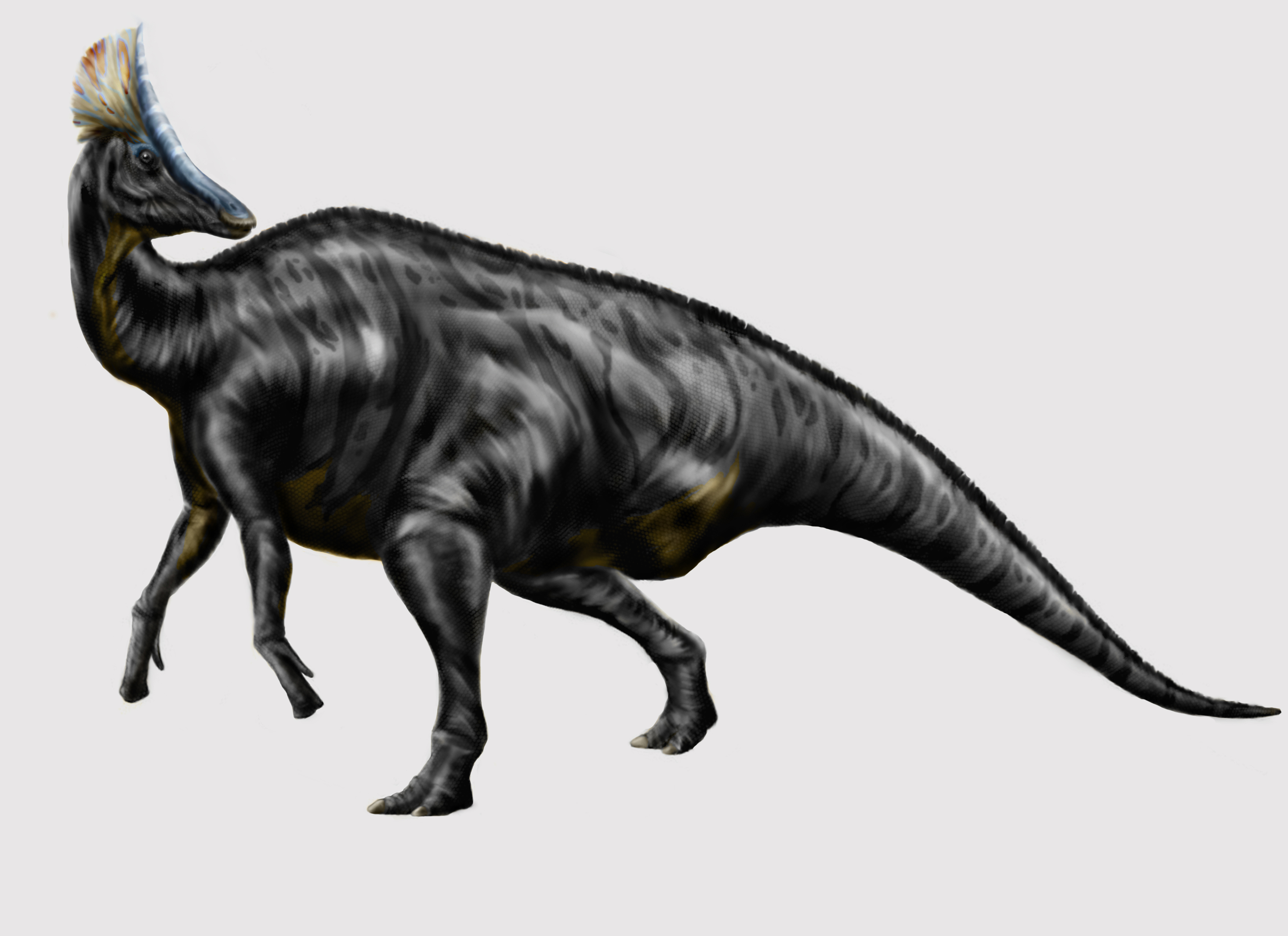 Painting of Olorotitan arharensis by Durbed showing it rearing.